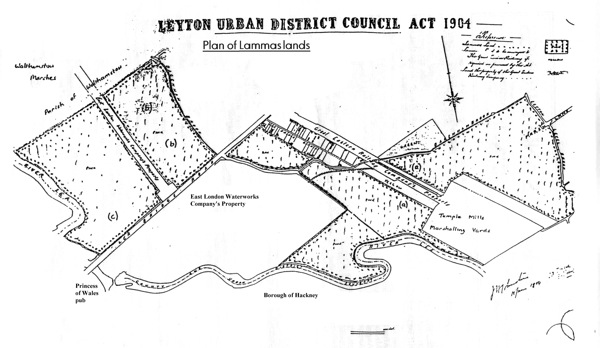 Map from [4 EDW. 7] Leyton Urban District Council Act 1904 [Ch. CCXI] PART XI